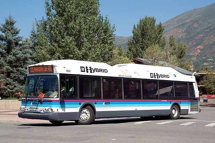 A New Flyer Industries DE40i bus in service for the RFTA.